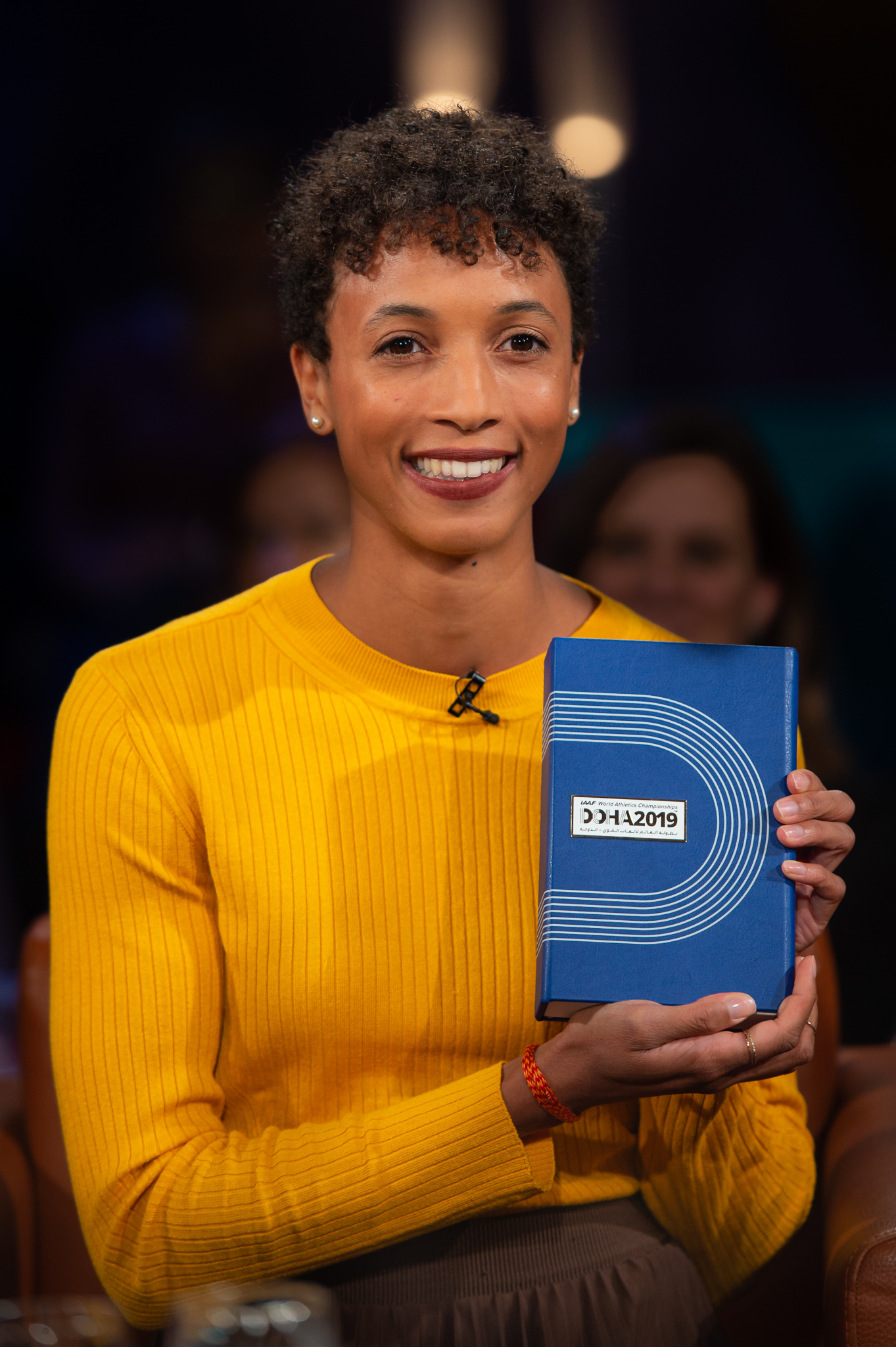 Live on tape,Malaika Mihambo,NDR Talk Show